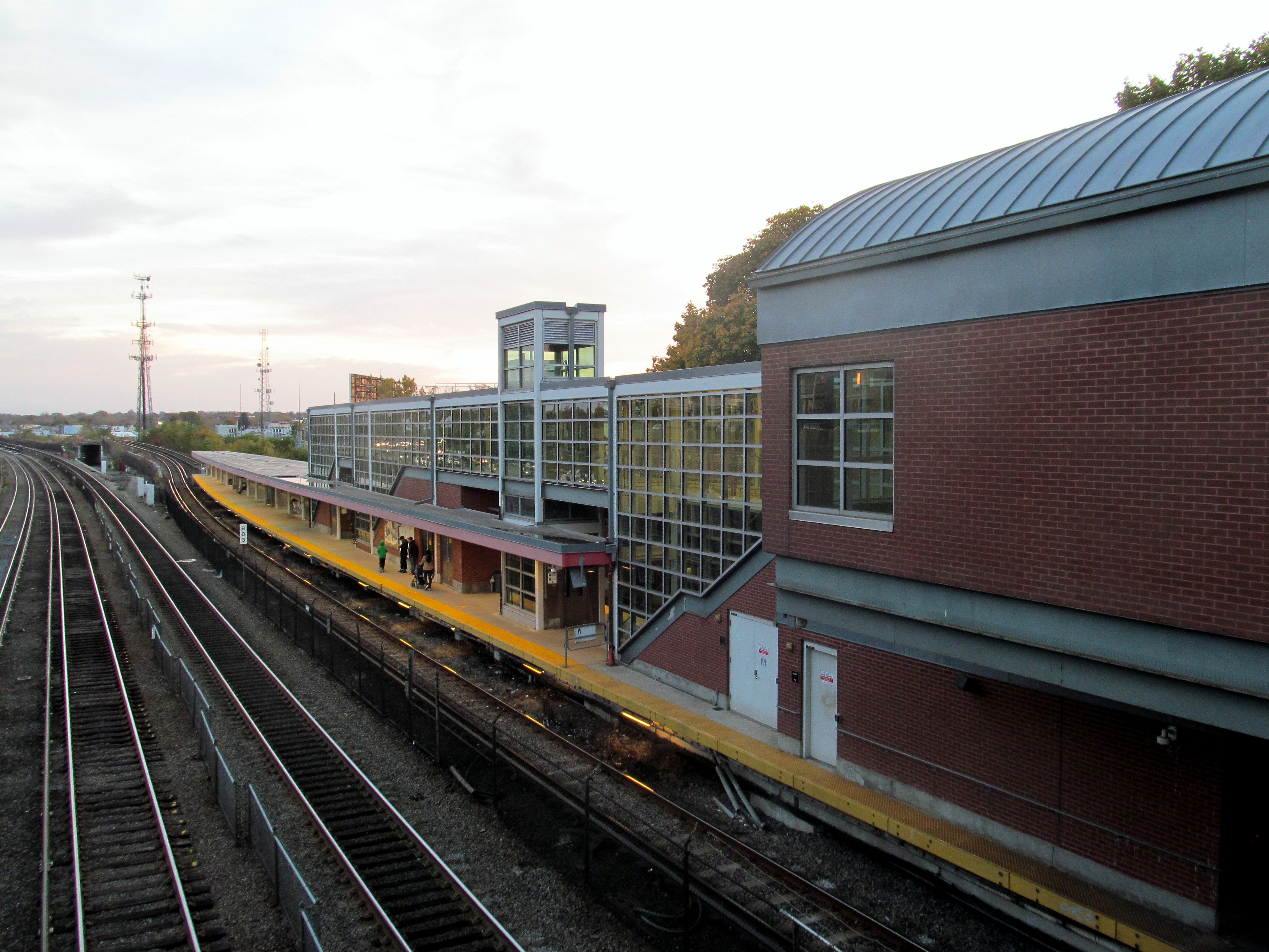 Savin Hill station from the Savin Hill Avenue bridge in November 2015